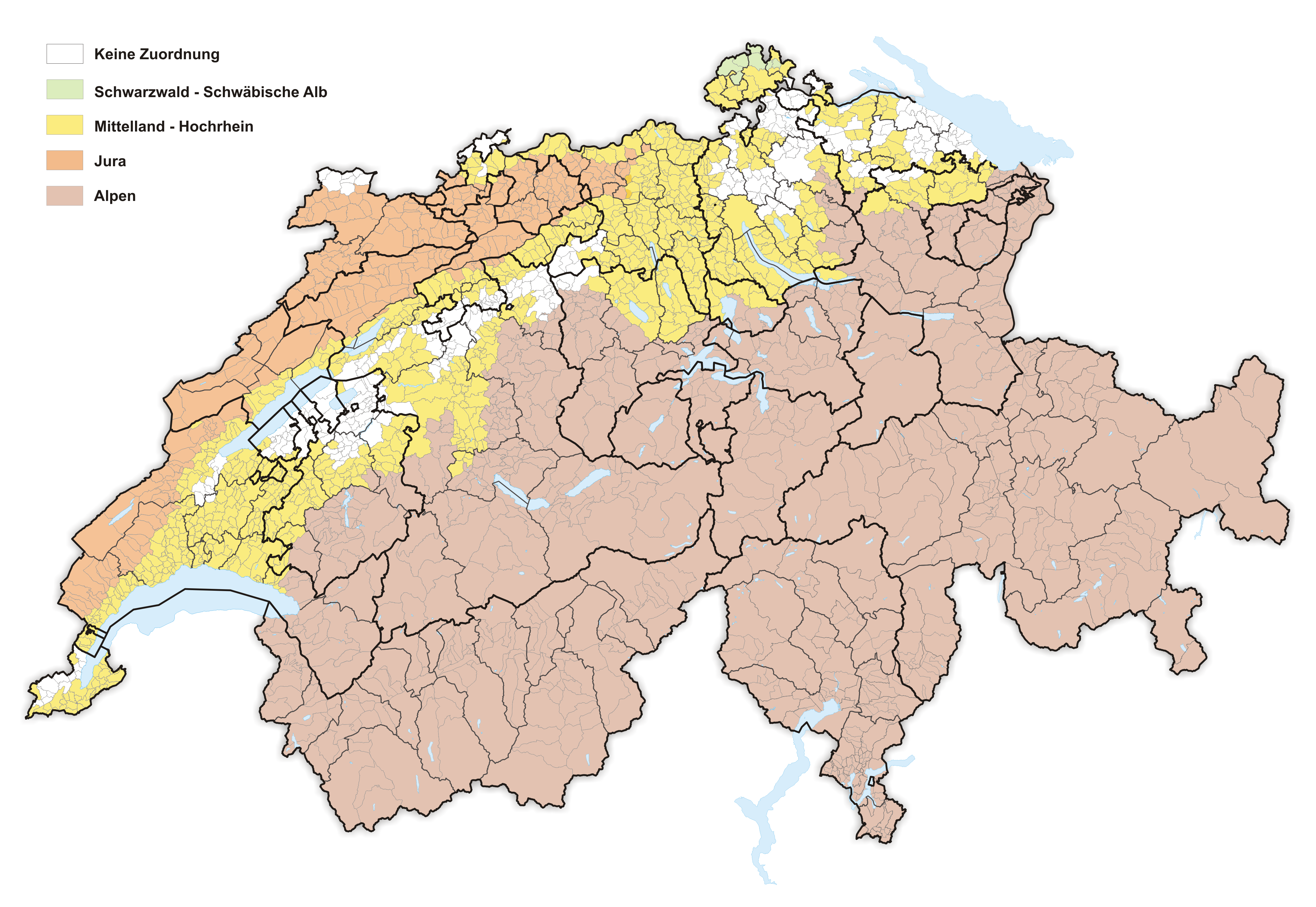 Swiss Mountain area region